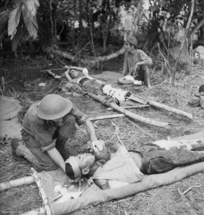 Australian War Memorial image 013880. Wounded Japanese prisoners of war captured during the Australian Army's final assault on Gona receive medical treatment.